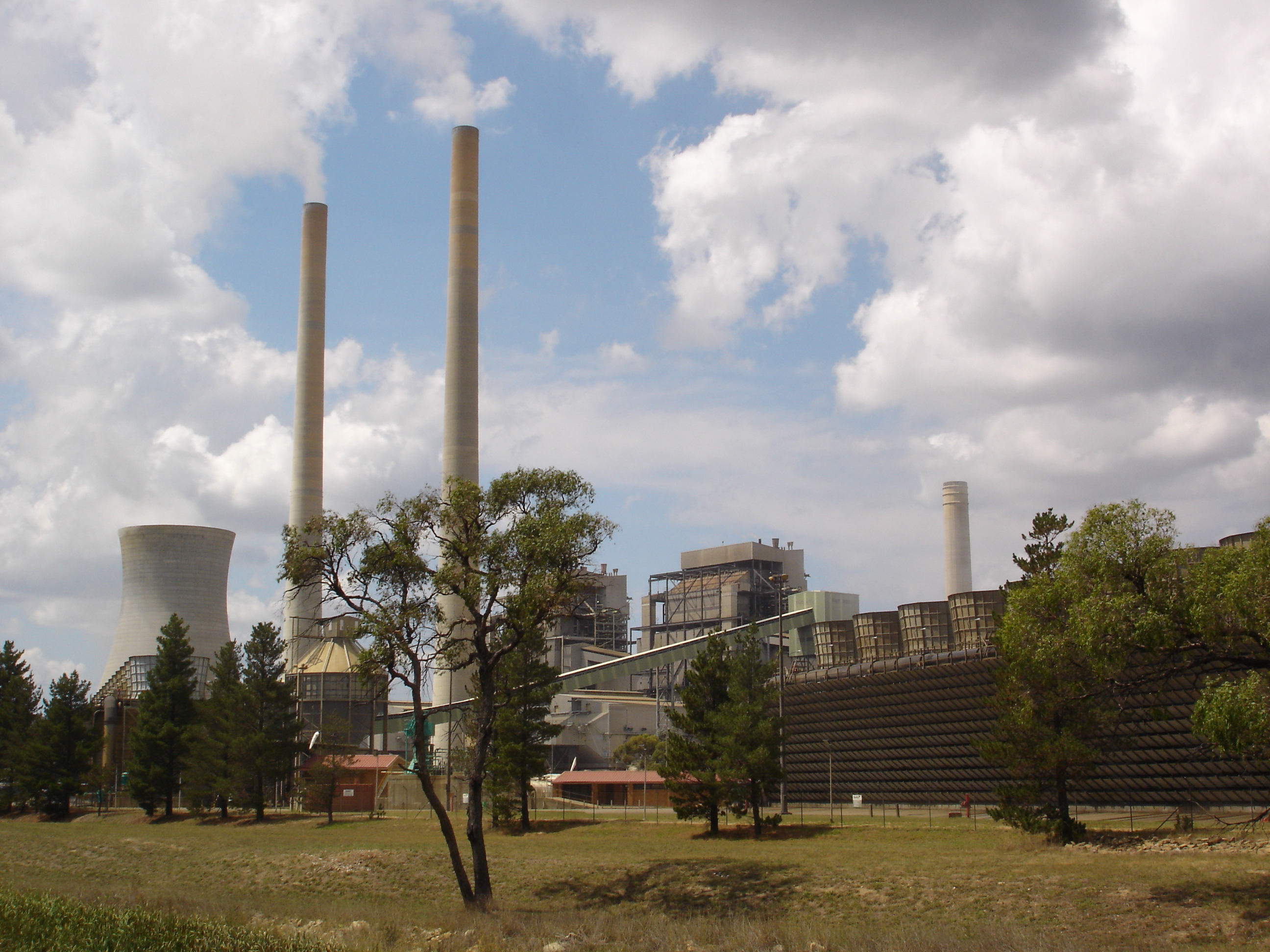 Wallerawang Power Station, New South Wales, Australia. Taken by user Amitch on 17/1/07.